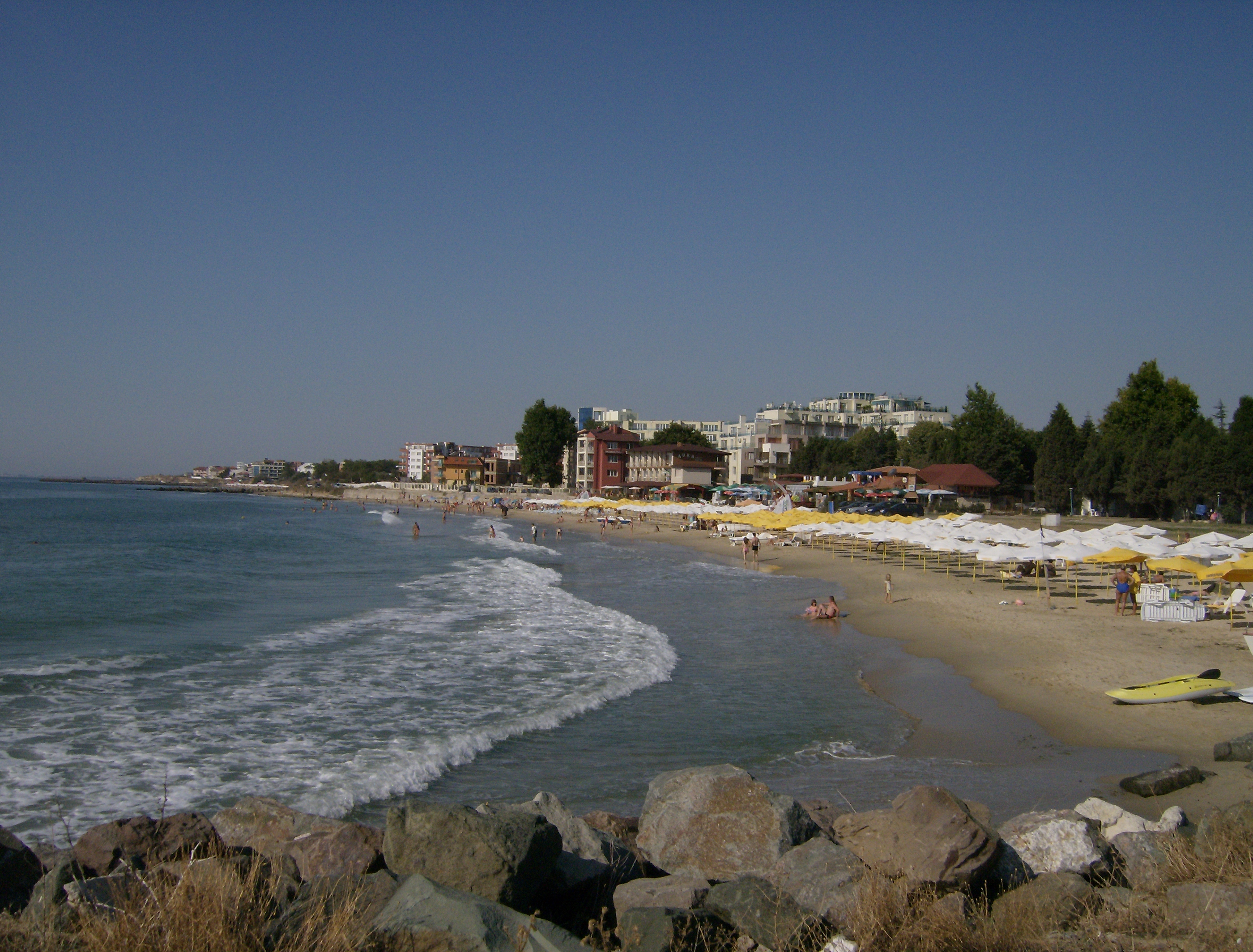 Ravda